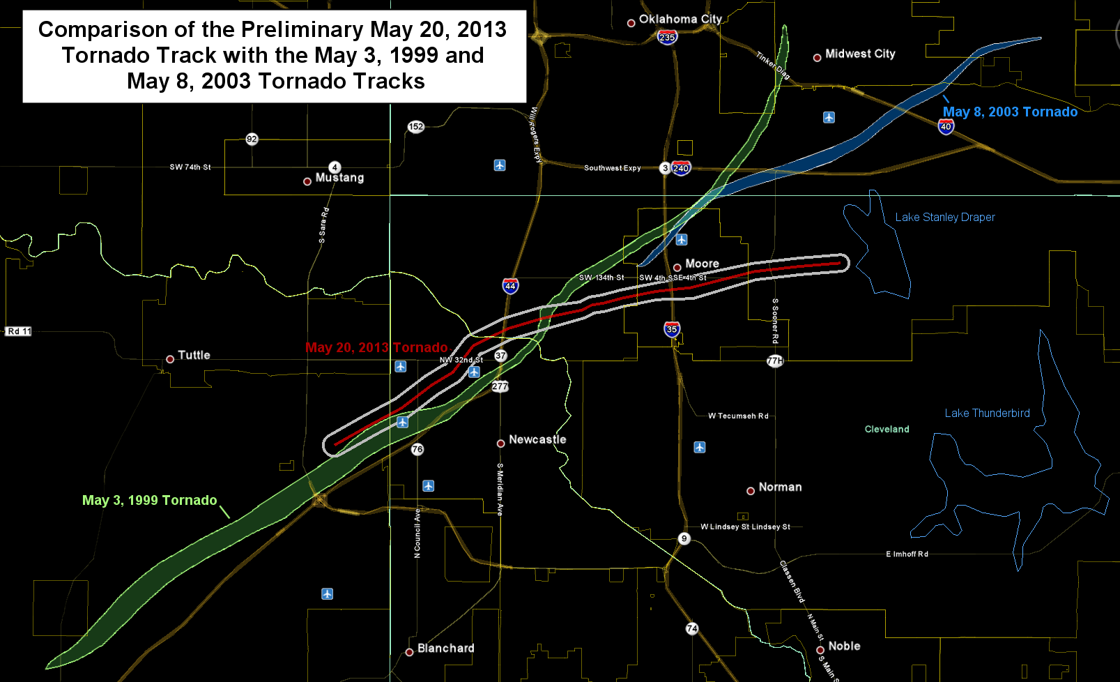 Tornado track comparison between May 3 1999 and preliminary May 20 2013 Moore tornado path